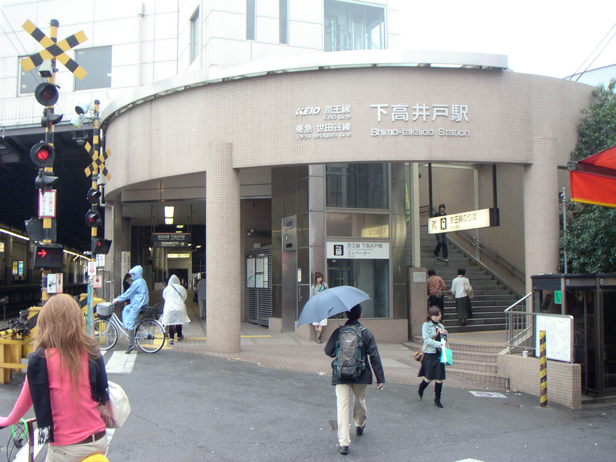 South gate of Shimotakaido Station, Keio Line and Setagaya Line, Tokyo